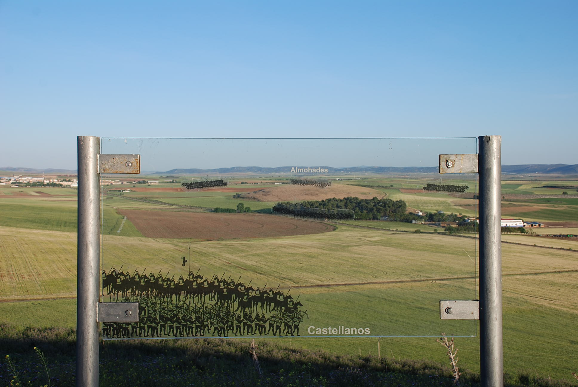 Battlefield of Alarcos (province of Ciudad Real, Castile-La Mancha).